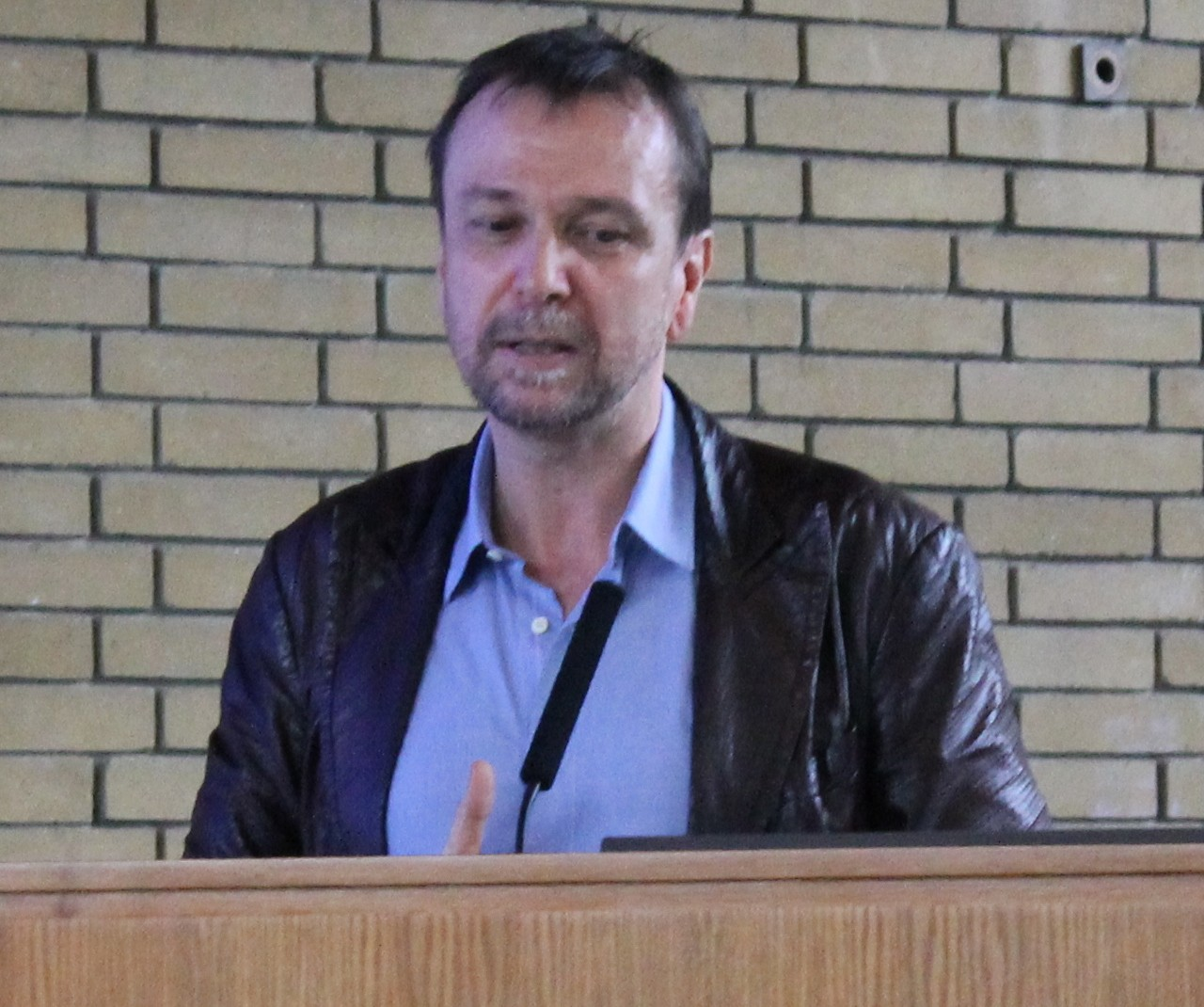 Detail of David Thompson at Oxford Symposium 2012